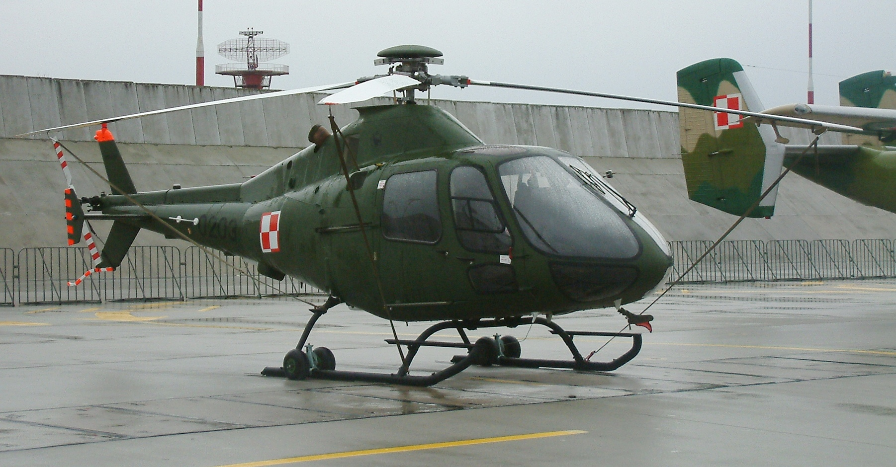 PZL SW-4 #0203 of Polish Air Forces, 31st. Air Base Poznań-Krzesiny